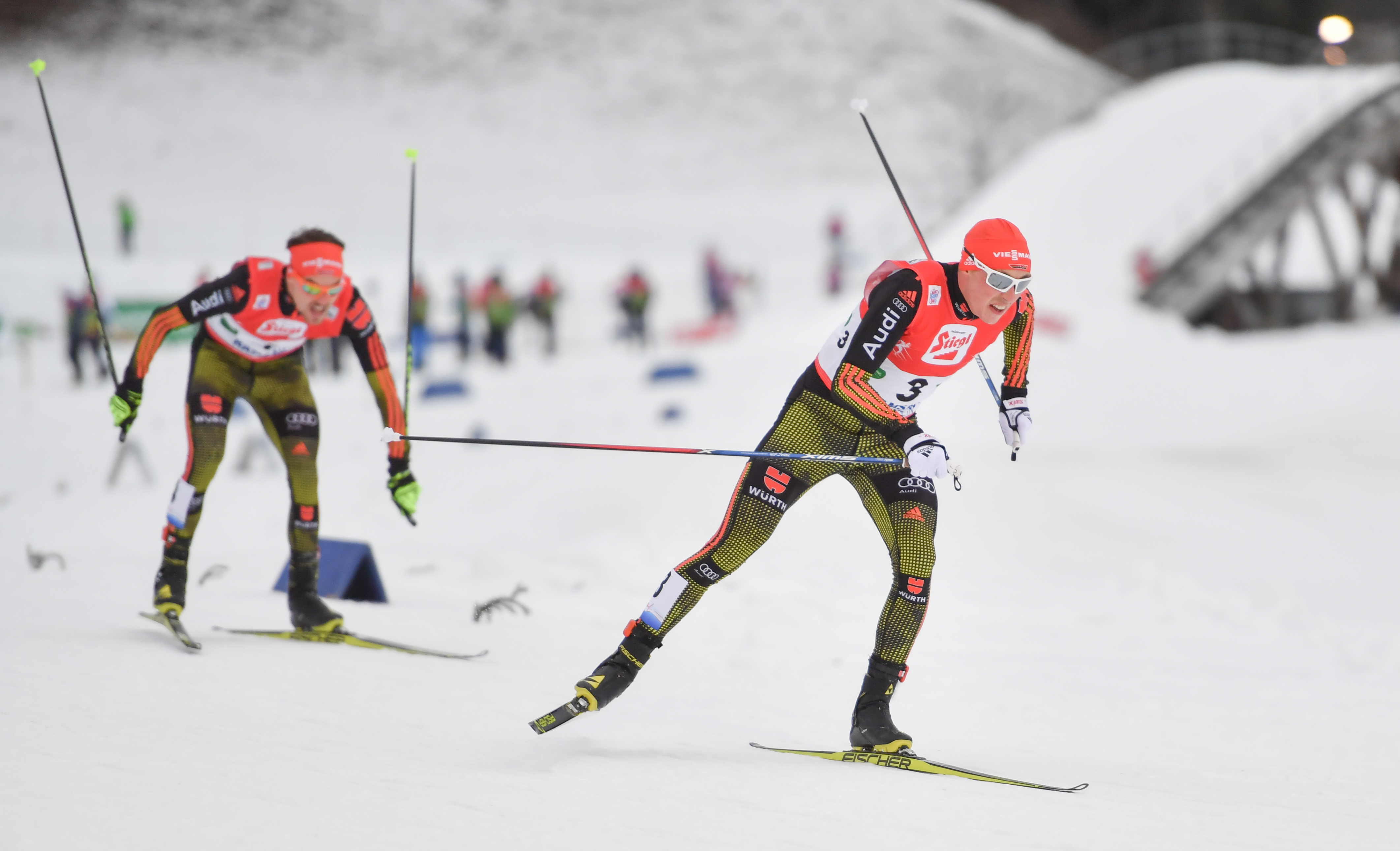 FIS World Cup Nordic Combined, Ramsau/Austria, 2016-12-16 to 2016-12-18.